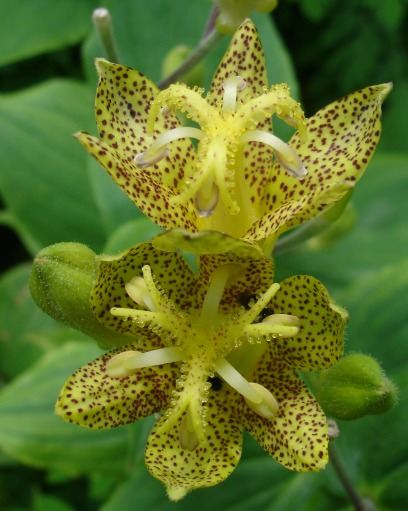 Tricyrtis latifolia, Jardin alpin, Paris